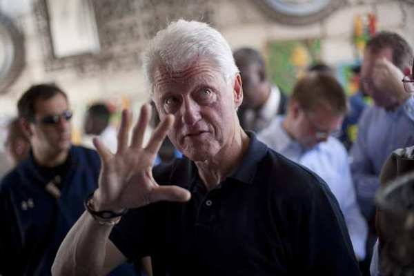 Former U.S. President and President of the Interim Comission for Haiti Reconstruction (CIRH), Bill Clinton (wearing a Power Balance Power Band), watches the work done by artisans in one of the craft workshops in Village de Noaille, Croix des Bouquet, outside Port Au Prince (Haiti), 16 August 2011, during his 2-day visit in which he will meet Haitian president Michel Martelly.